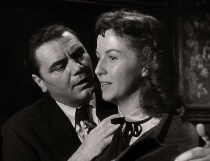 Ernest Borgnine & Betsy Blair in Marty - trailer (cropped screenshot)